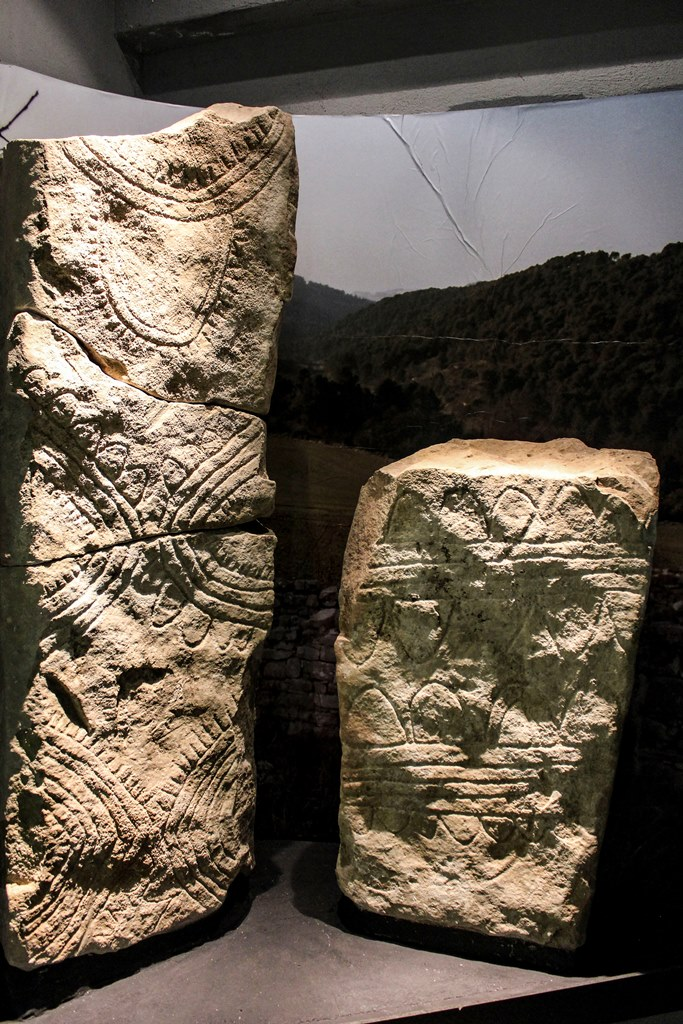 Les pedres decorades de Passanant